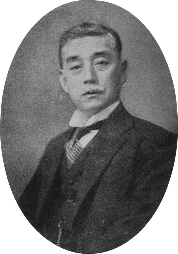 Einoshin Yoshitake, 4th Director of the Tokyo Higher Technical School.